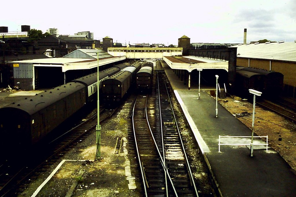 Wolverhampton Low Level Station Former GWR station, demoted to parcels station in 80s, but retaining rail access to freight line running between Wolverhampton and Walsall. The main line station (ex High Level) is off to the left.